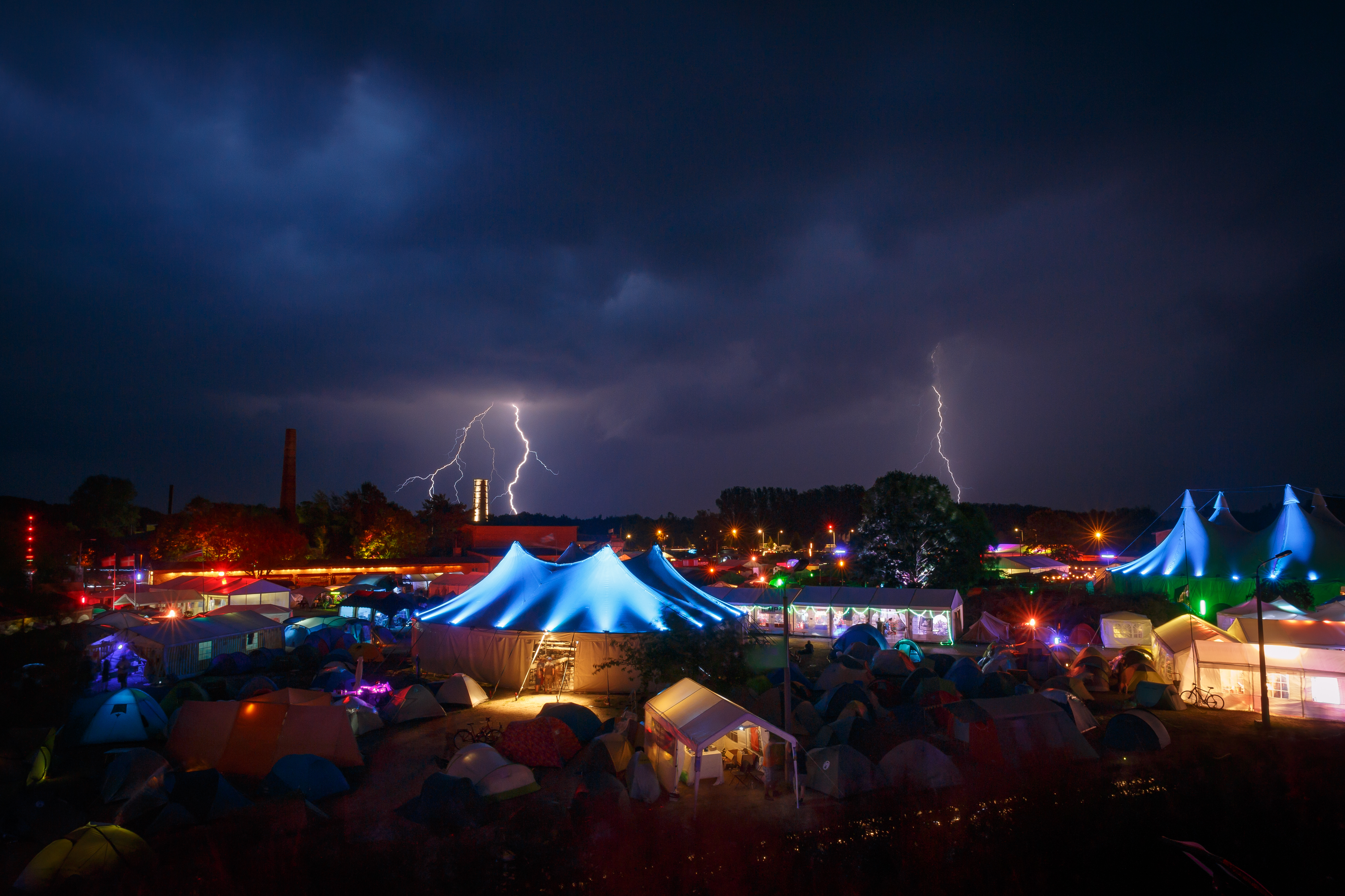 The Chaos Communication Camp 2015 with Thunderstorm in background.